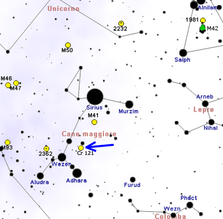 Map of Cr 121